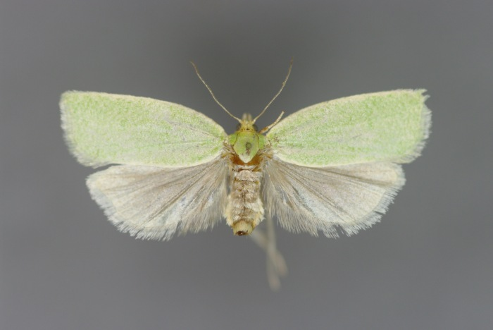 Tortrix viridana